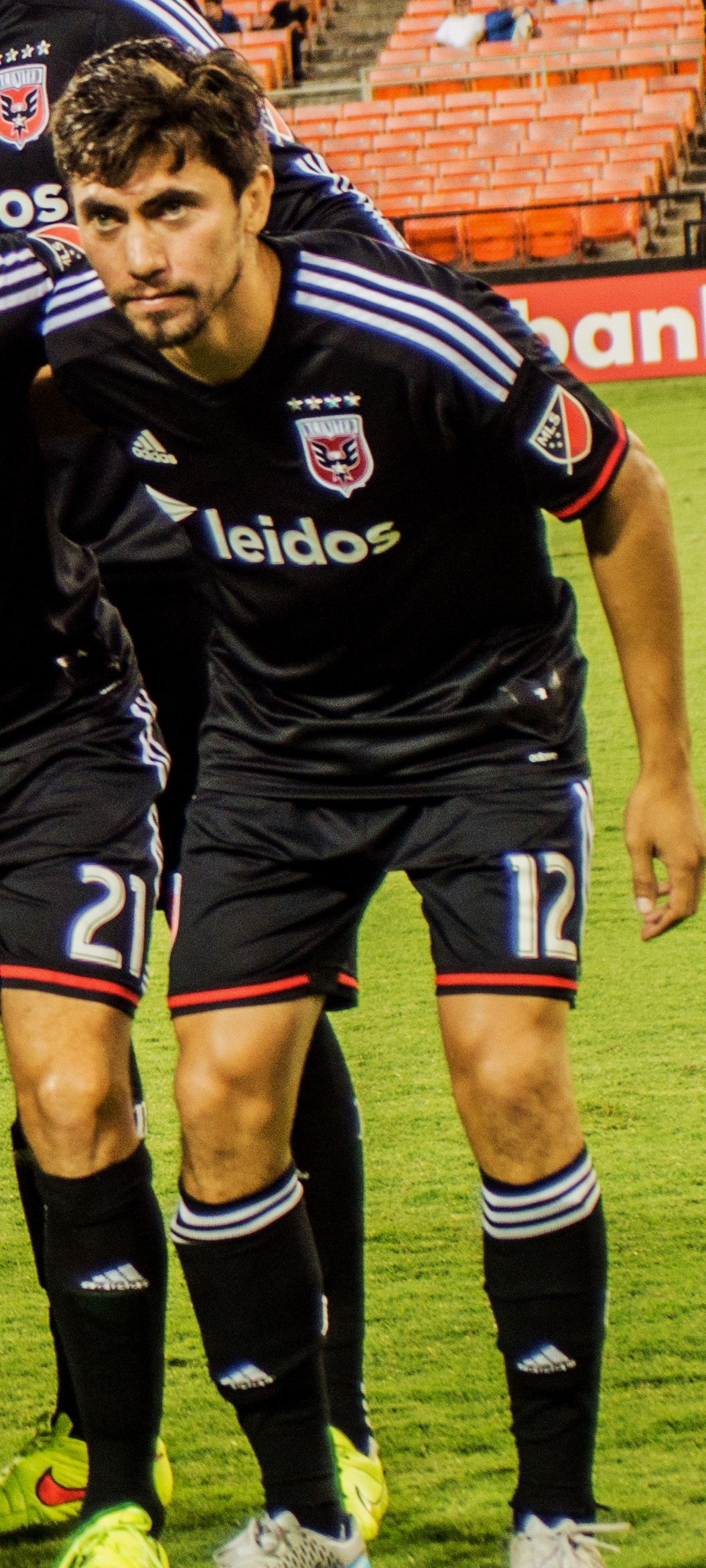 2015/16 Scotiabank CONCACAF Champions League (DC United vs. Deportivo Arabe Unido) (Sept. 2015) Michael Farfan